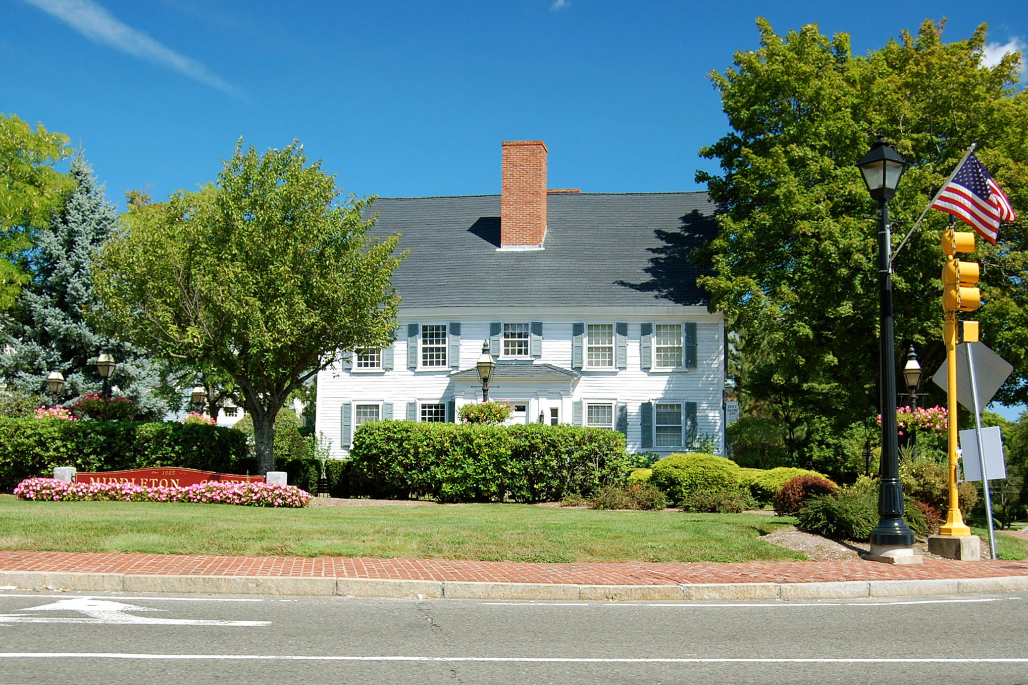 Estey Tavern in Middleton, Massachusetts at the corner of Rt. 114 and 62 (Maple Street)